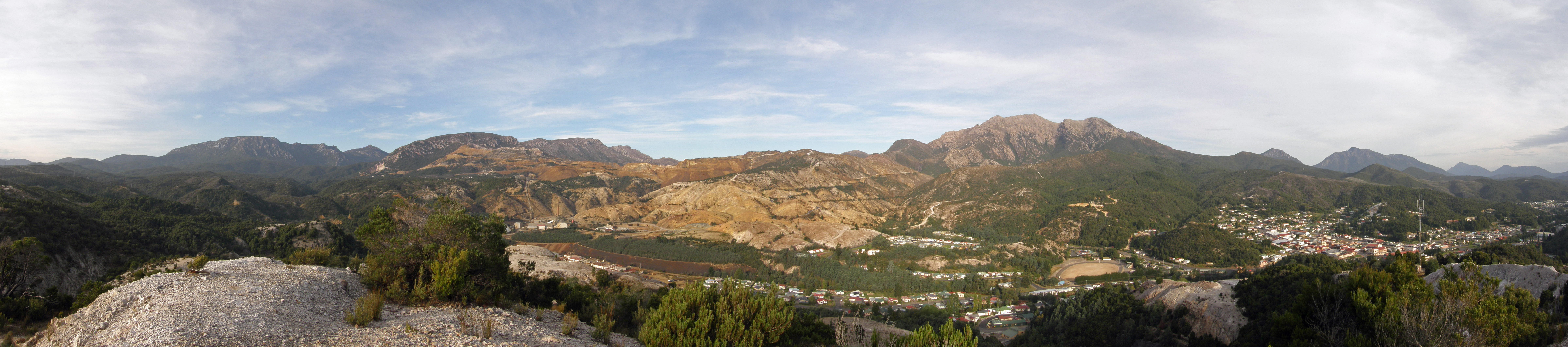 Panoramnic photo. (left to right) Mt Lyell, Mt Owen, Gravel Oval, Queenstown and south Queenstown.